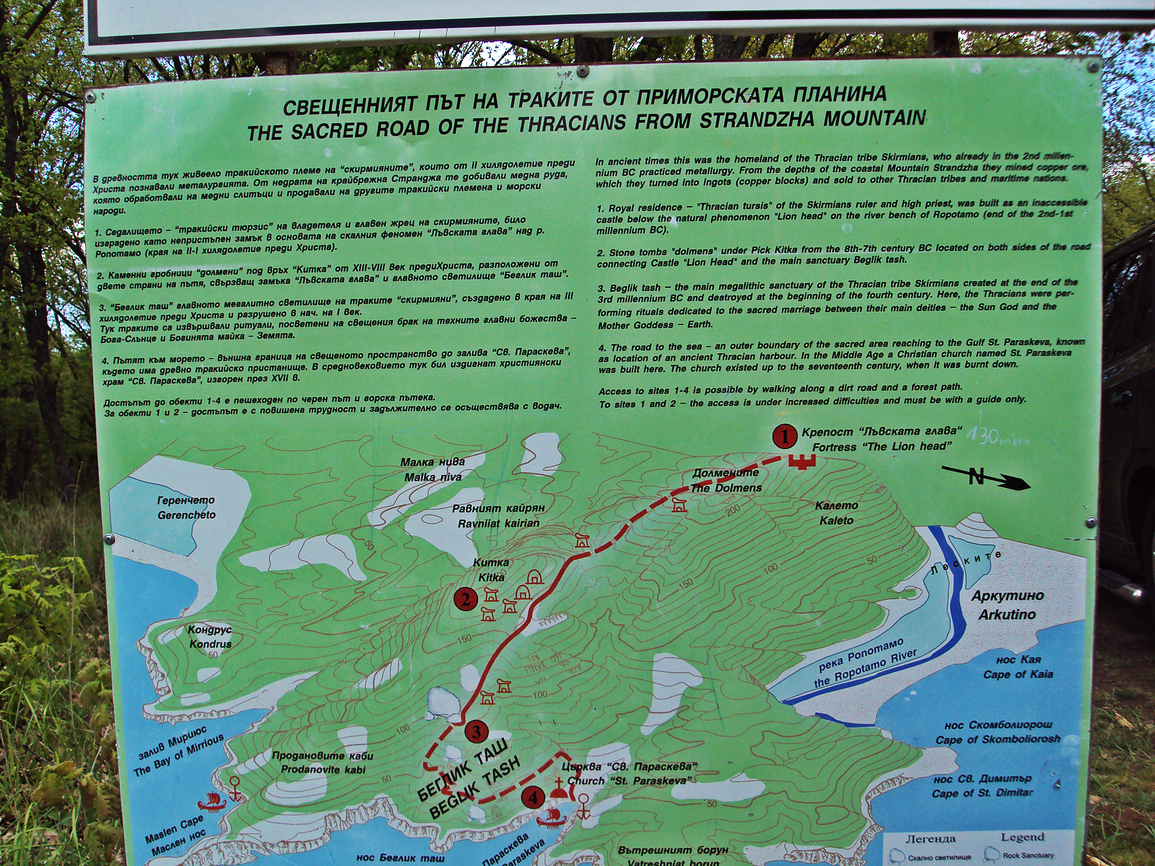 Info Board Begliktash BG